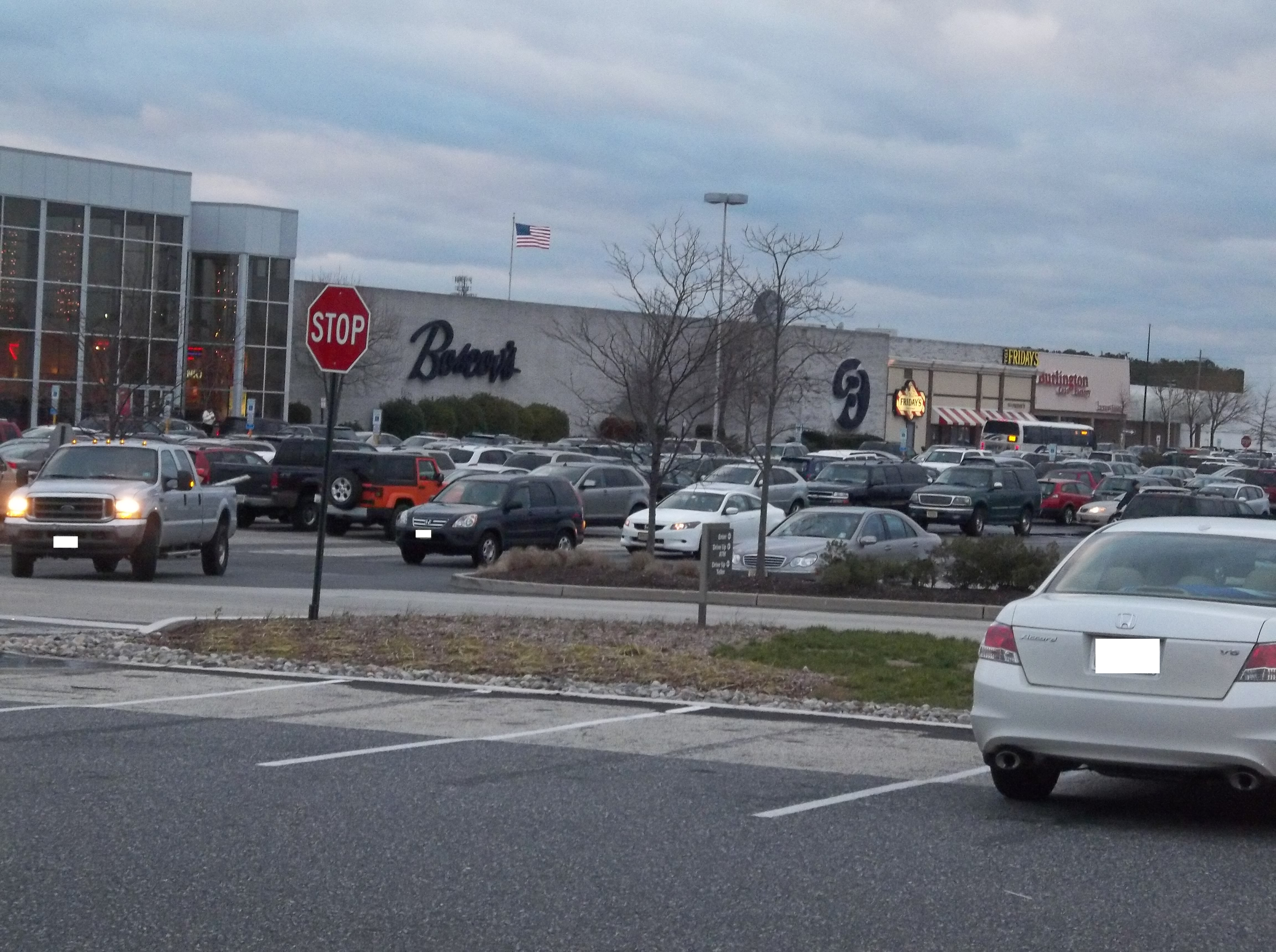 Front of Shore Mall, taken from the out building of the left of the property. Shows Boscov's, TGI Friday's, and the Burlington Coat Factory.